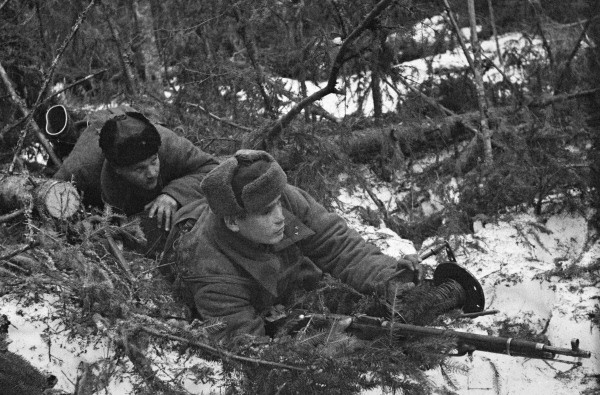 “Signalers laying a telephone cable in the forest”. Signalmen laying a telephone cable in the forest.